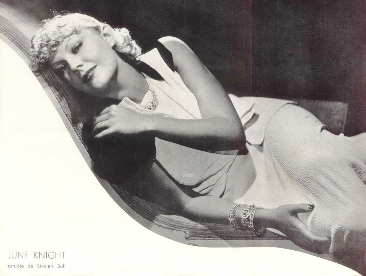 Publicity photo of June Knight for Argentinean Magazine. (Printed in USA)